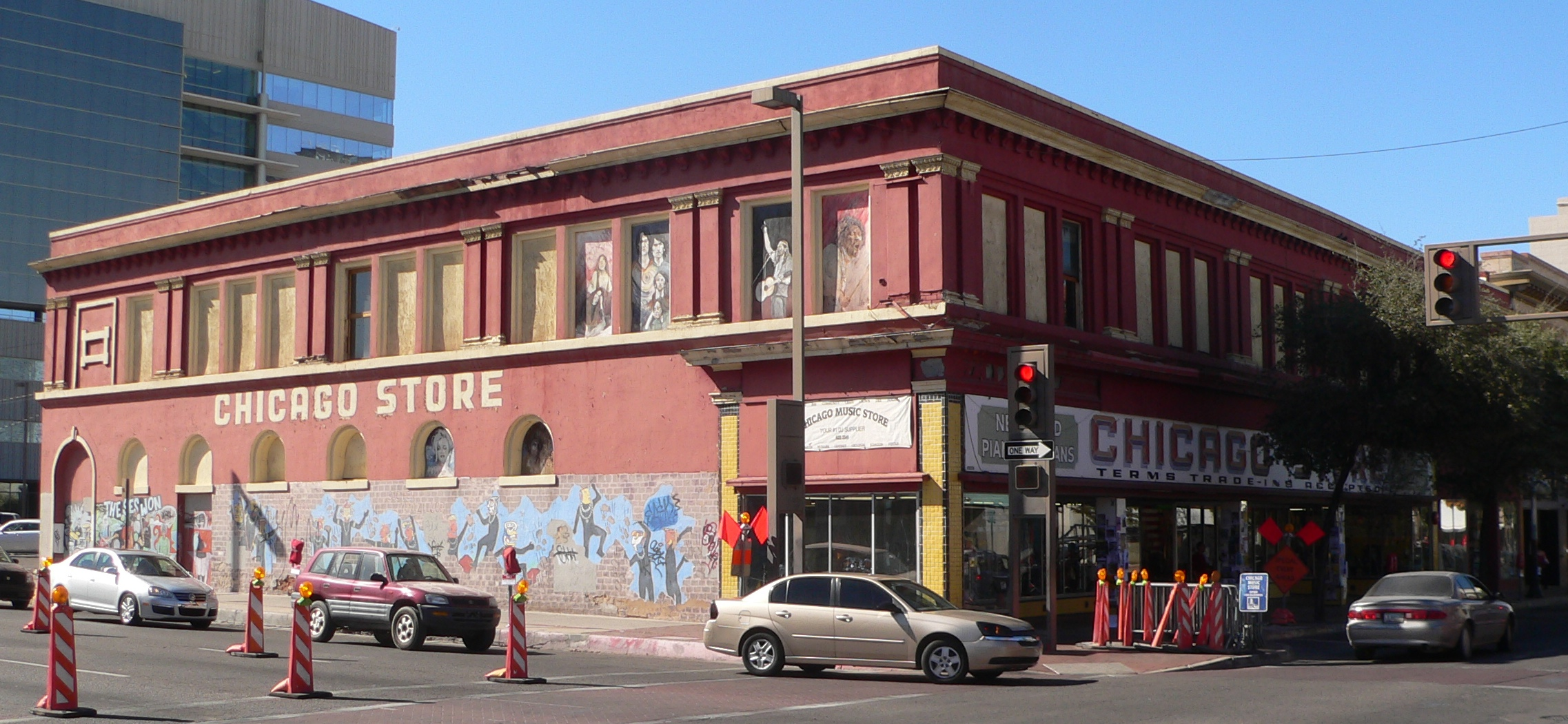 Chicago Store, located at southwest corner of 6th Avenue and Congress Street in Tucson, Arizona; seen from the northeast.